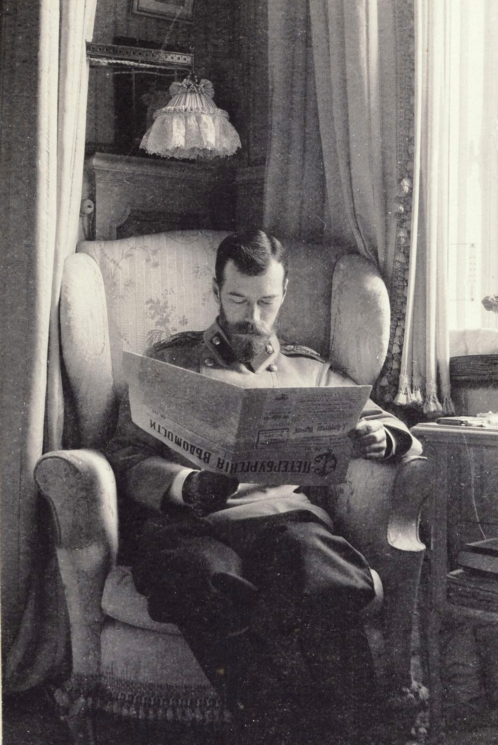 Tsar Nicholas II reading the St Petersburg News in the Mauve Boudoir in the Alexander Palace at Tsarskoe Selo.